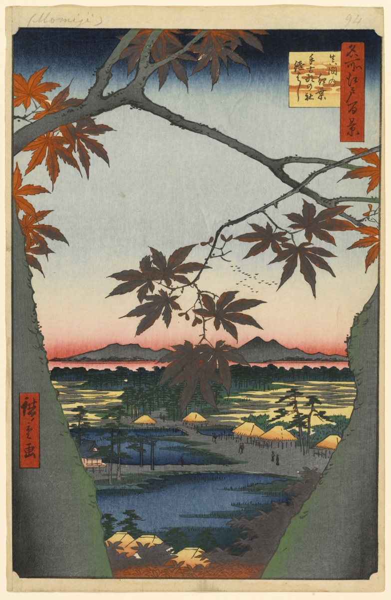 Part of the series One Hundred Famous Views of Edo, no. 094, part 3: Autumn.